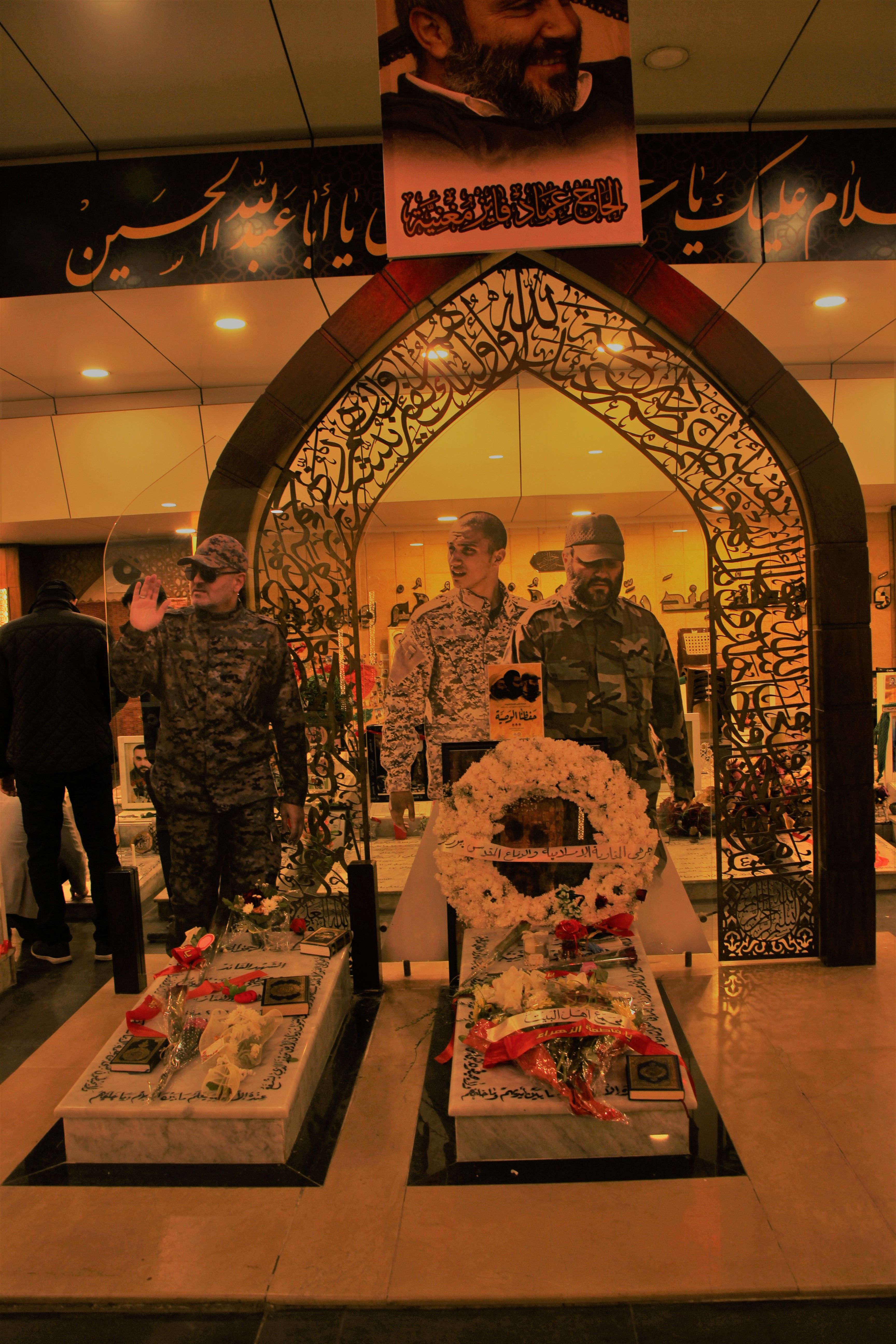 Rawdat al-Shahidain Cemetery is the cemetery in Lebanon, located in the southern suburb of Beirut